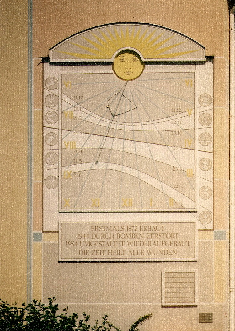 Sundial on the side wall of the building Stauffenbergstr. 75 in D-64285 Darmstadt